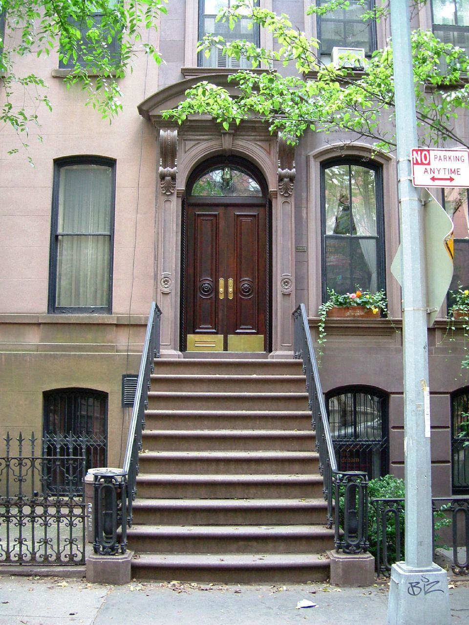 The building used for the exterior of Carrie Bradshaw's House in Sex and the City, 66 Perry Street between Bleecker and West 4th Streets in the West Village neighborhood of Greenwich Village, Manhattan, New York City, was built c.1899, and is located in the Greenwich Village Historic District. (Sources: NYC GIS map and IMDB)